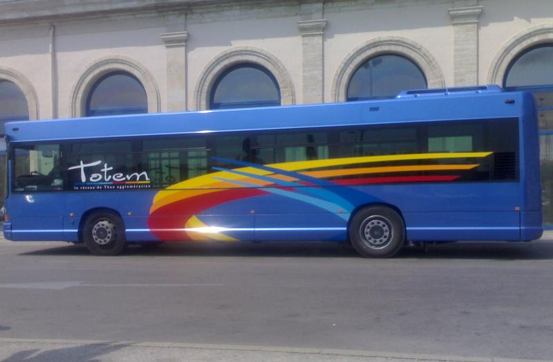 A bus in Sète.